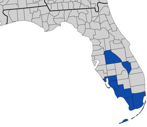 A county map of Florida showing range of Eumops floridanus